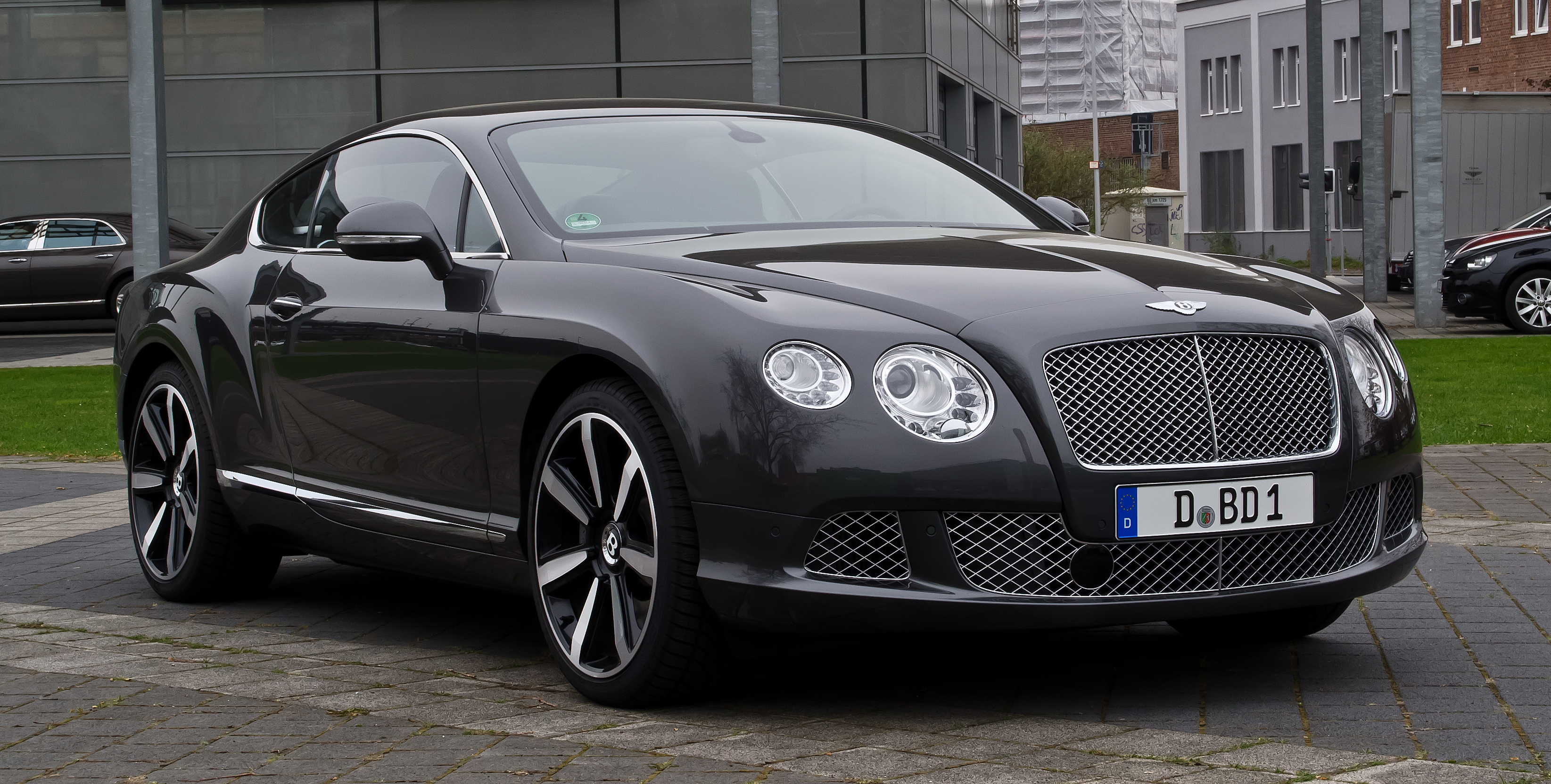 Bentley Continental GT (II)